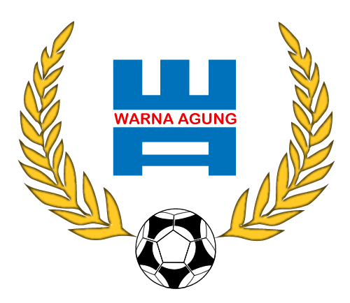 This is the logo of PS Warna Agung, Indonesian Soccer Team